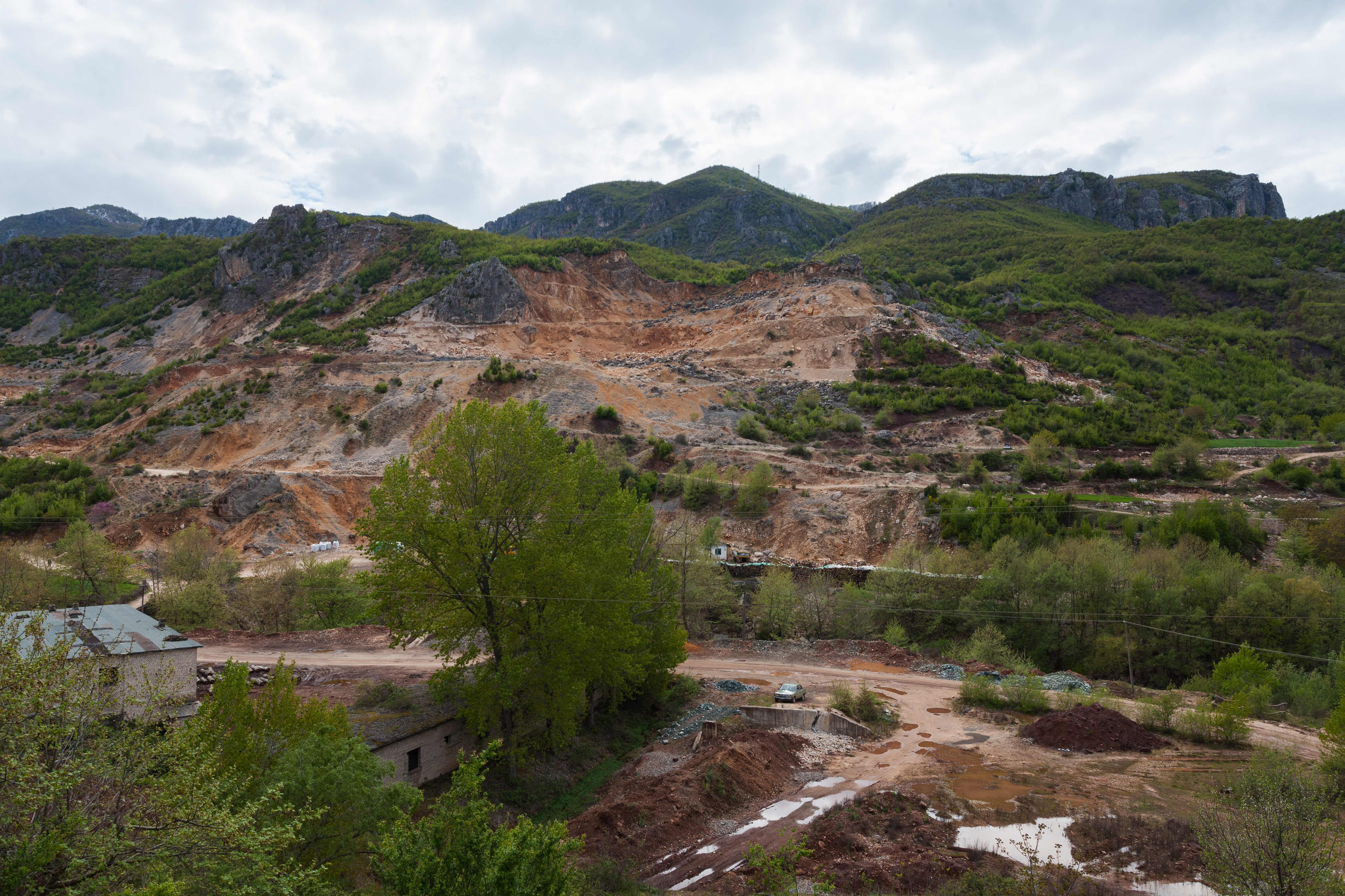 Chrome mine in Qukës, Albania